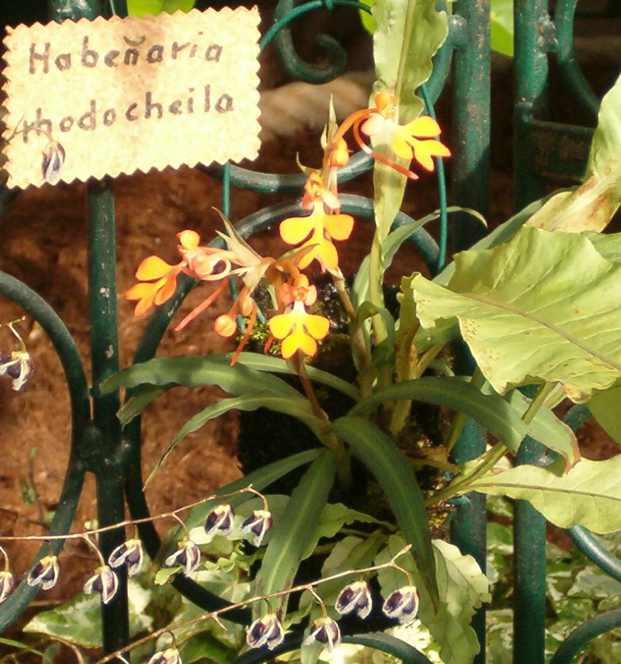 Habenaria rhodocheila, Habitus and Flowers Location: Botanical Gardens Berlin - Orchid Exhibition